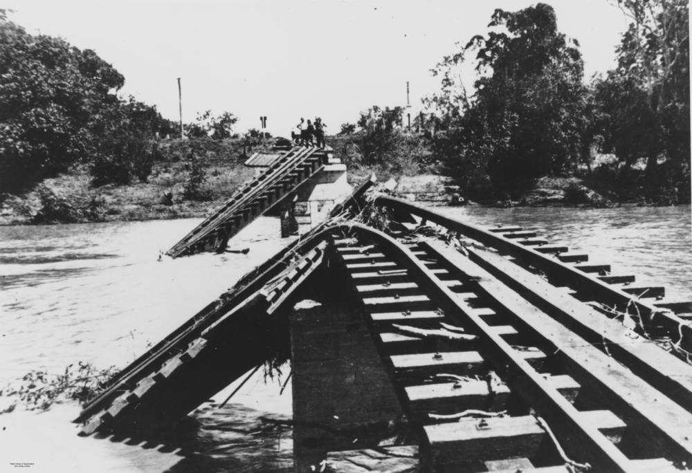 Flood damaged railway bridge over the Burdekin River, 1917. Flood damaged section of the railway bridge over the Burdekin River in the 1917 floods. A section of the bridge has been swept away leaving twisted and tangled railway lines. Flood debris has been lodged between the sleepers on the decking. A group of observers have gathered on the far side of the bridge.